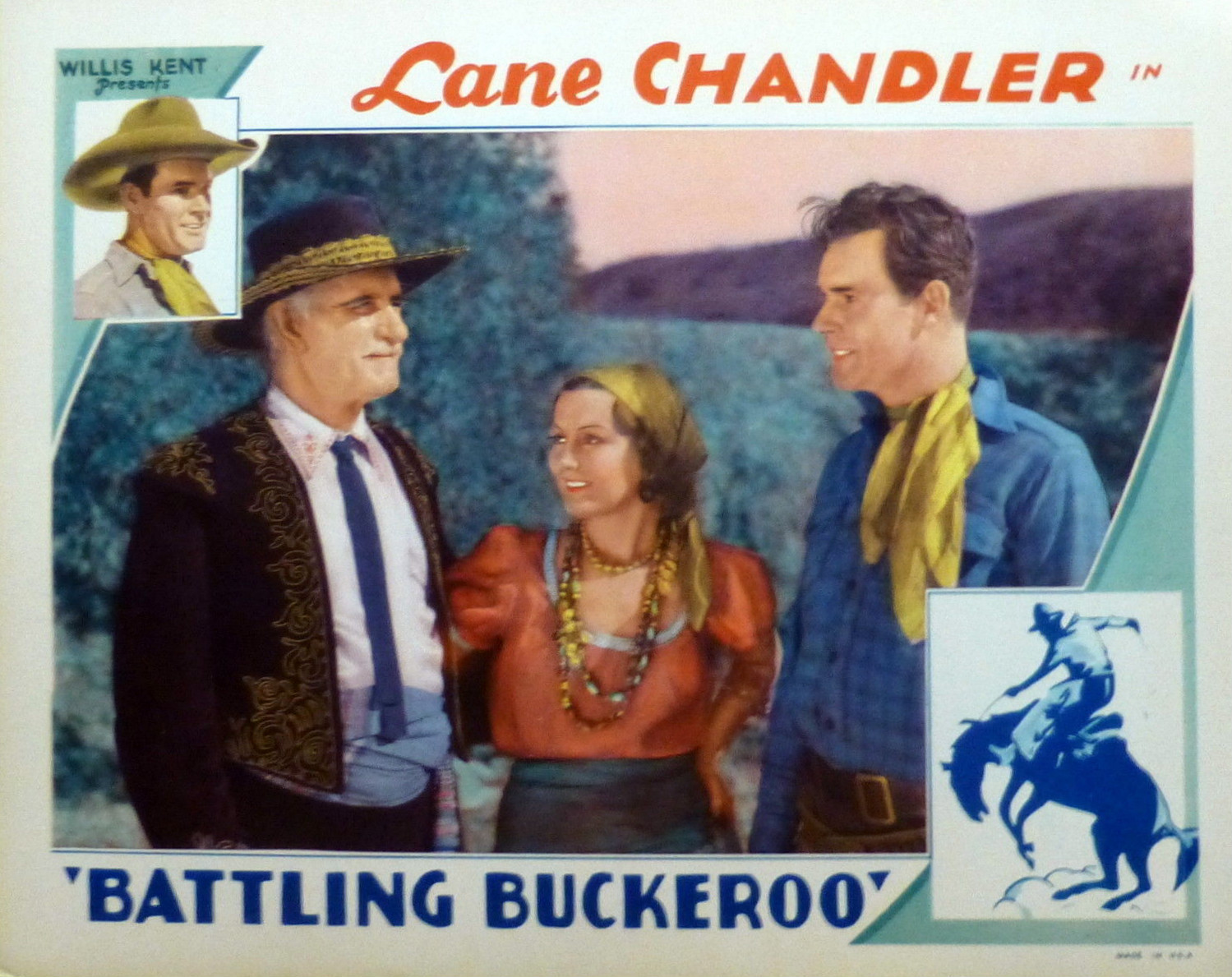 Lobby card for the American western film Battling Buckaroo (1932) with Lafe McKee, Doris Hill, and Lane Chandler.